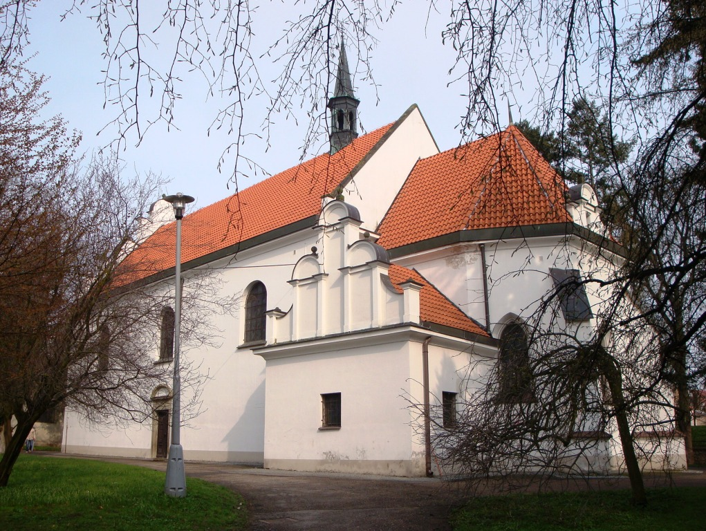 Vysoké Mýto, Trinity churh (1543)